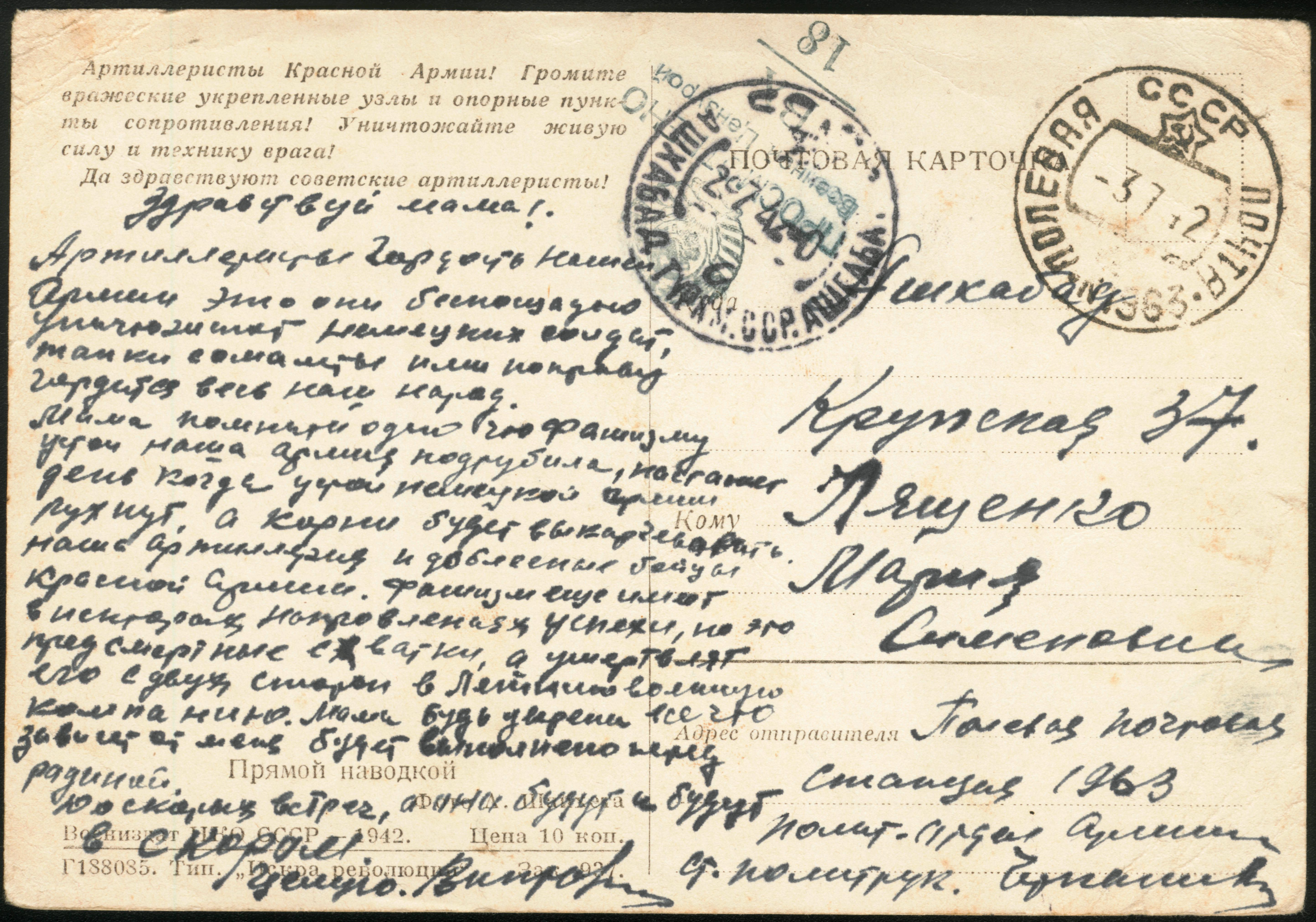 Artillery, USSR War Postcard, April 1942, reverse (text) side.